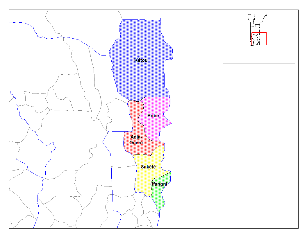 Map of the communes of the department of Plateau, Benin. Created by Rarelibra for public domain use. Created using MapInfo Professional v7.5 and various mapping resources.